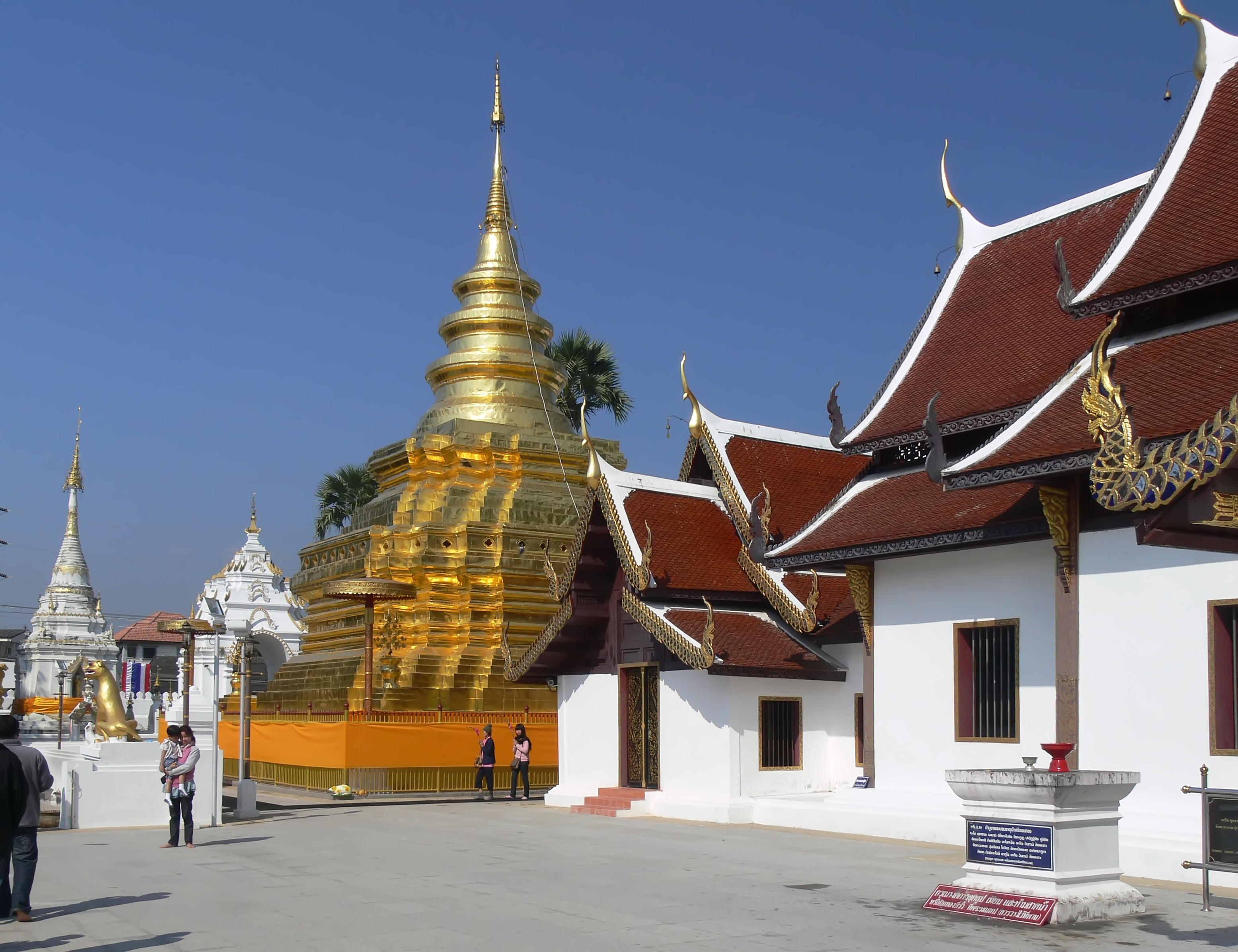 Wat Phra That Sri Chomthong: Chedi and Wihan.